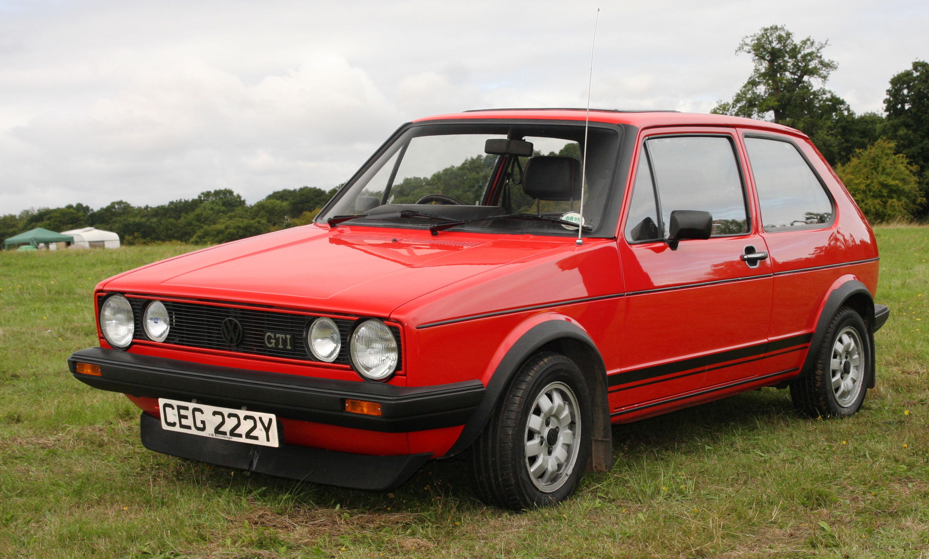 Volkswagen Golf GTI 1780cc registered October 1982